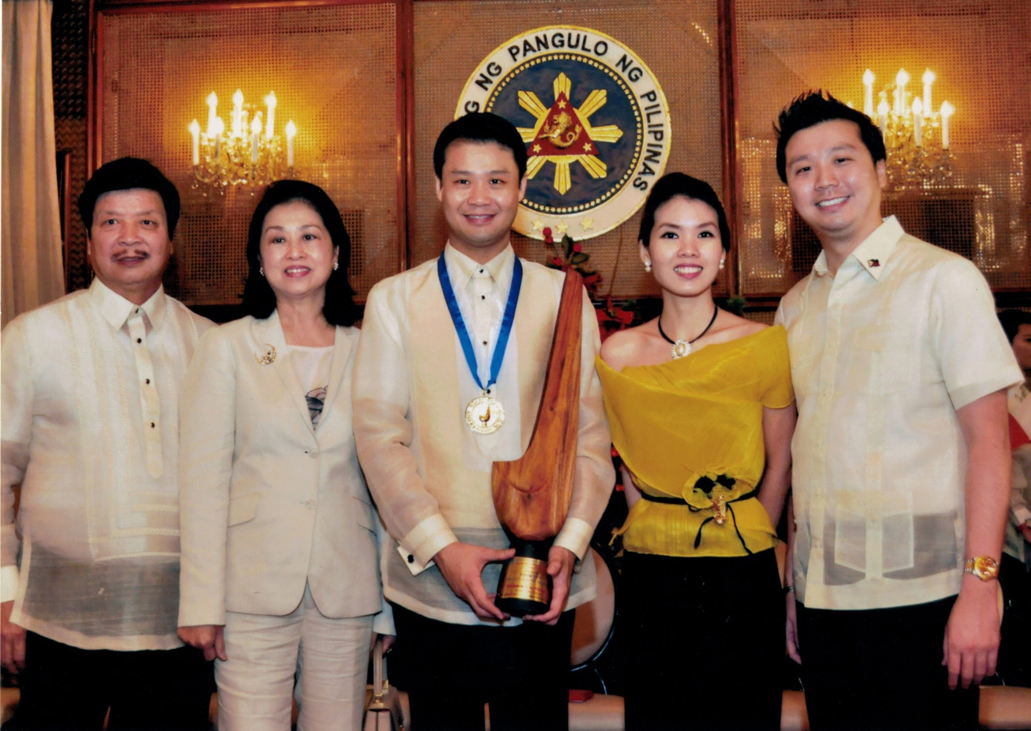 Valenzuela City Congressman Win Gatchalian was conferred of the coveted 2011 The Outstanding Young Men (TOYM) Award for Public Service by President Benigno Aquino III at Malacañang.